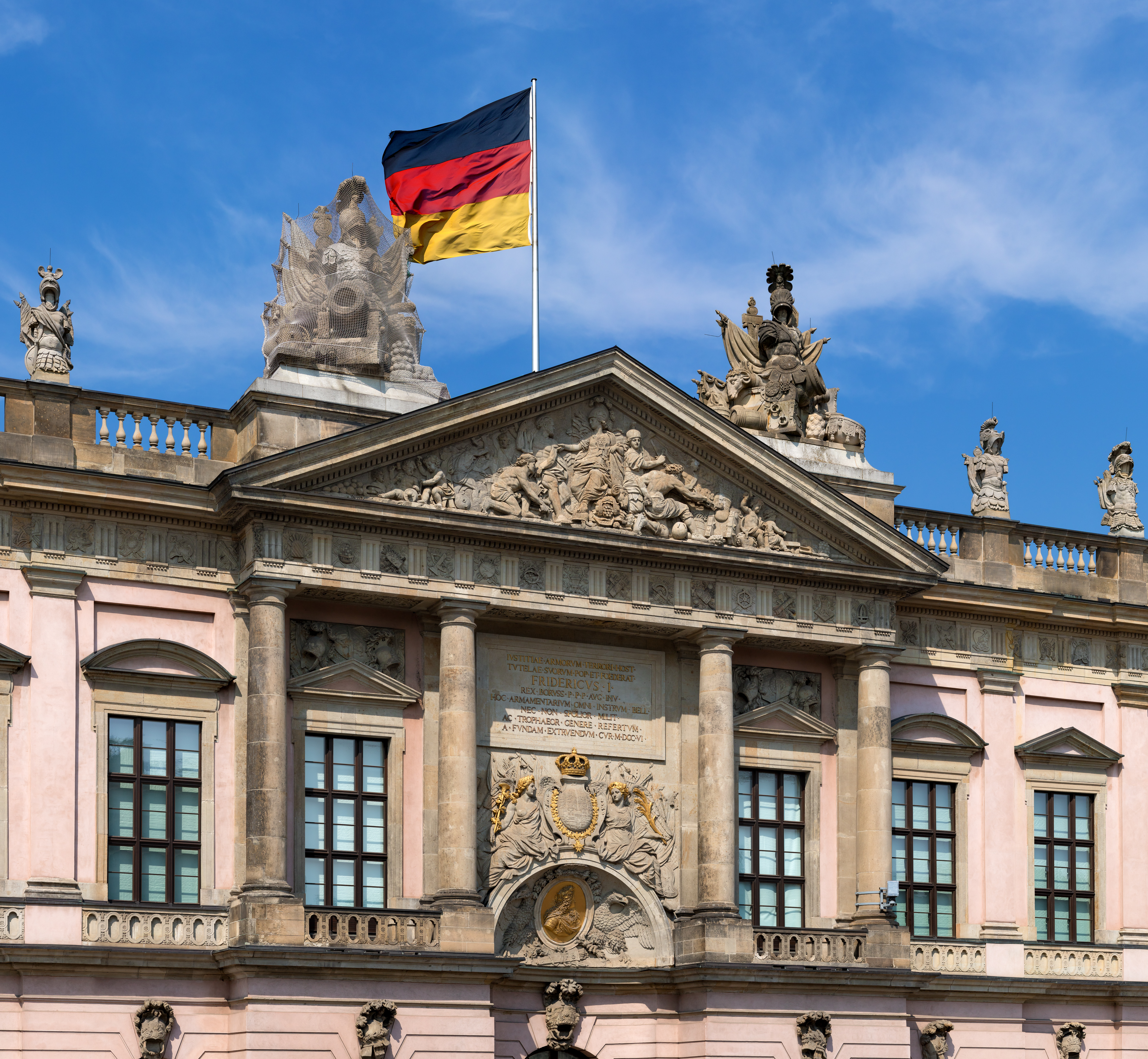 Frontview of Stiftung Deutsches Historisches Museum in Berlin. It is the highest-ranking body on the Boulevard Unter den Linden. Before it was located in the Zeughaus (armoury).